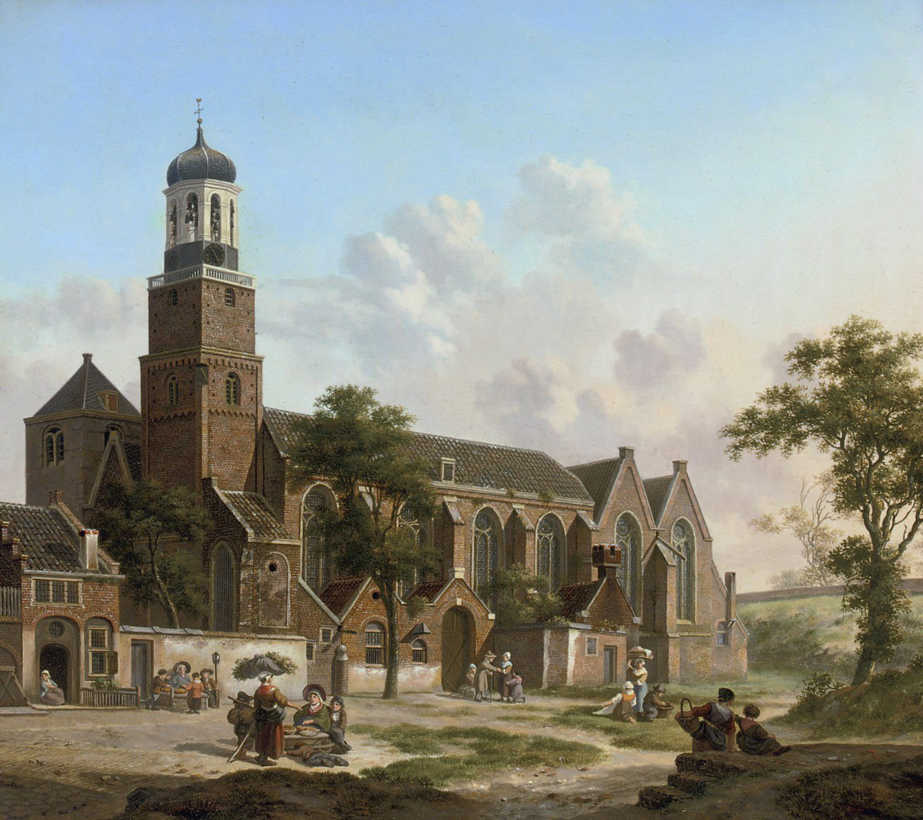 The Nicolaïkerk, Utrecht signed and indistinctly dated 'JH Verheyen f./18(..)' (lower right) oil on panel 35 x 40 cm